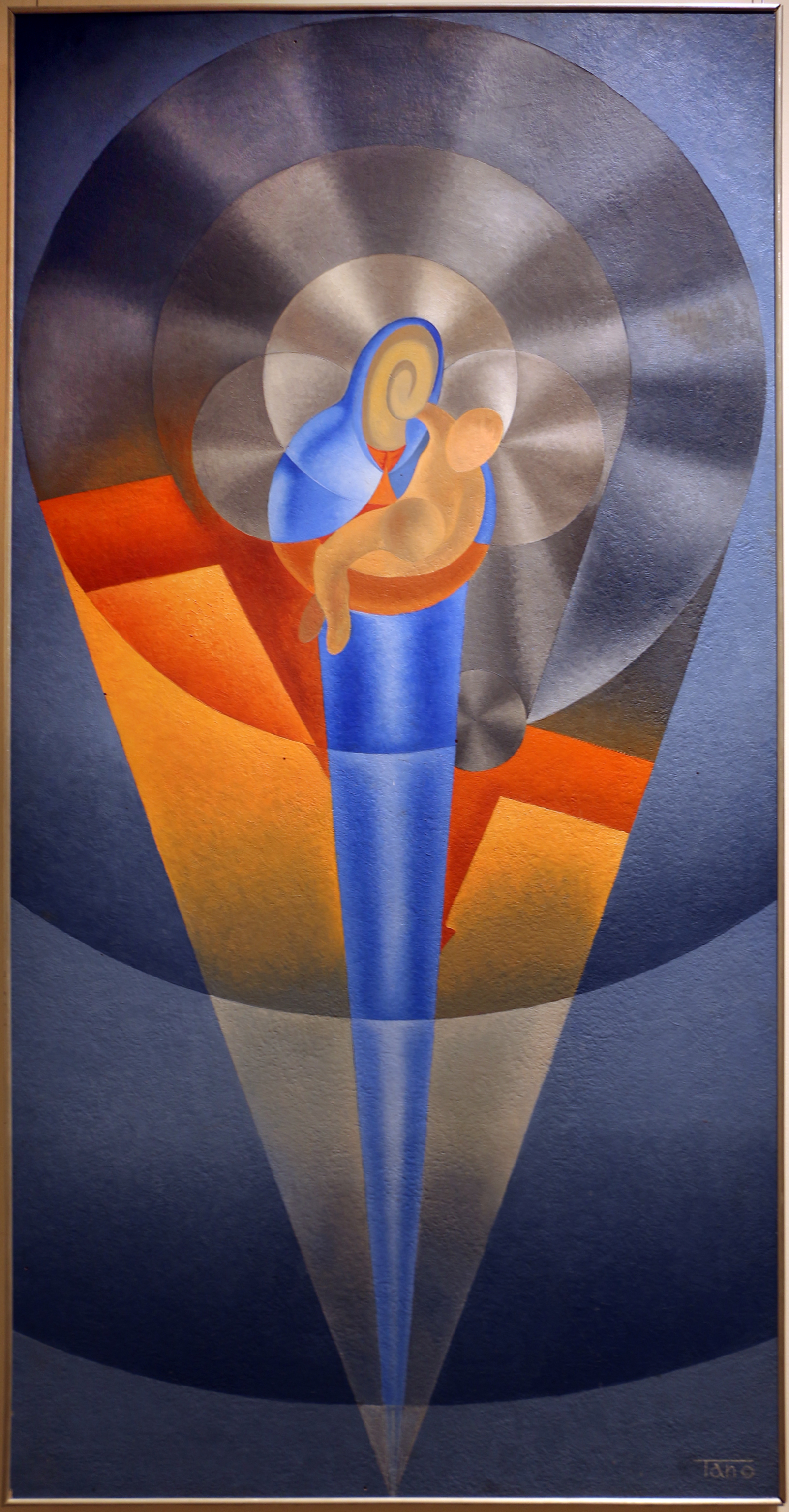 Palazzo Buonaccorsi (Macerata) - Modern Art